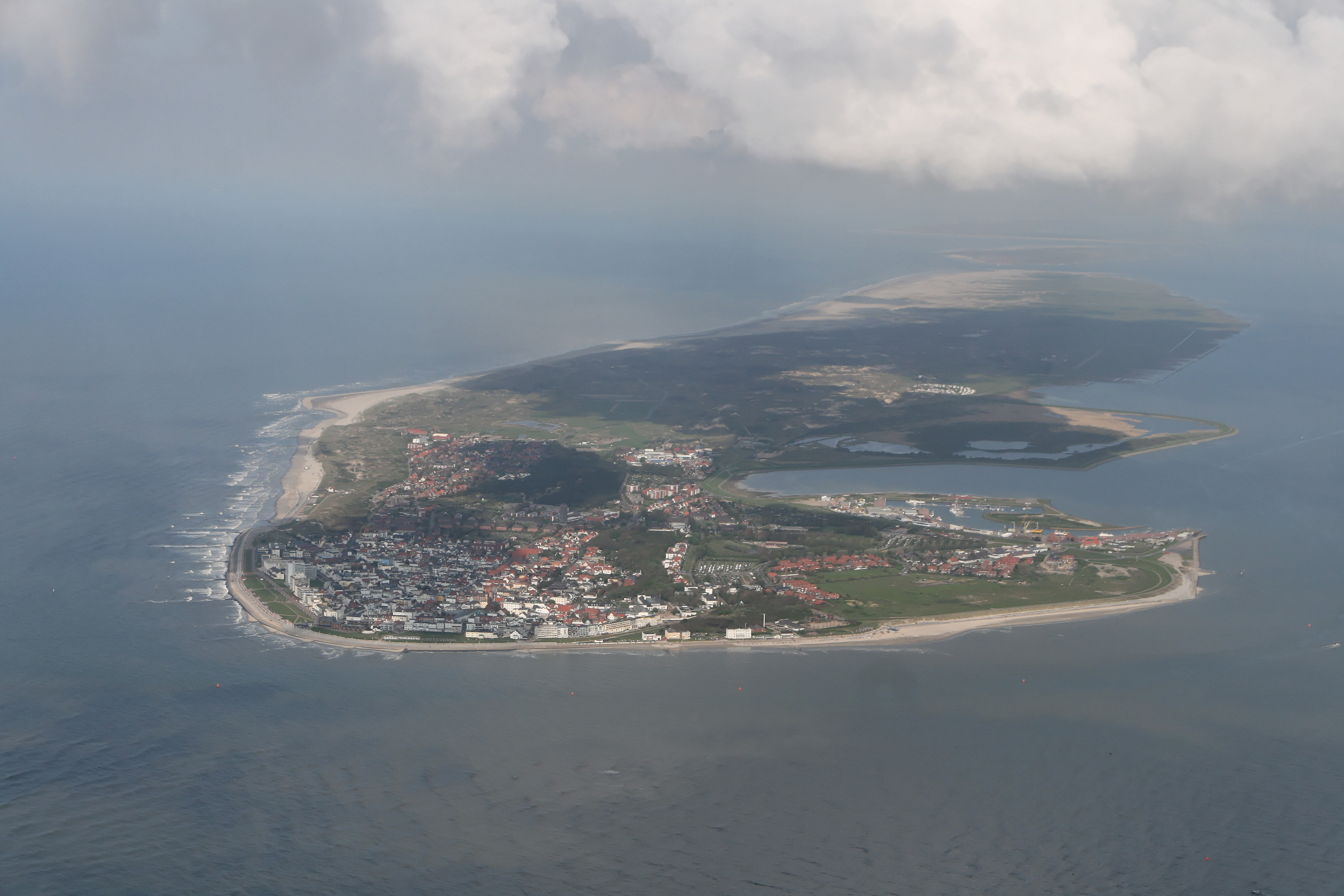 A aerial photograph of a unidentified location.